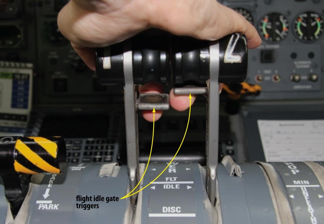 The power levers (engine controls) of the de Havilland Canada Dash 8, showing the flight idle gates in the closed (left) and open positions.